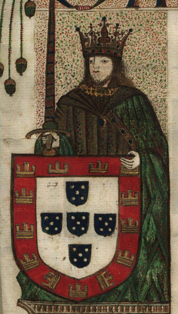 Miniature of the King John II of Portugal, in the "Livro dos Copos" codex (written between 1490 and 1498 by Álvaro Dias de Frielas).